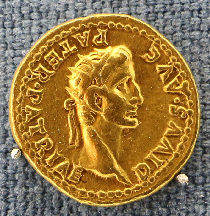 Ancient Roman coins in Palazzo Blu (Pisa)